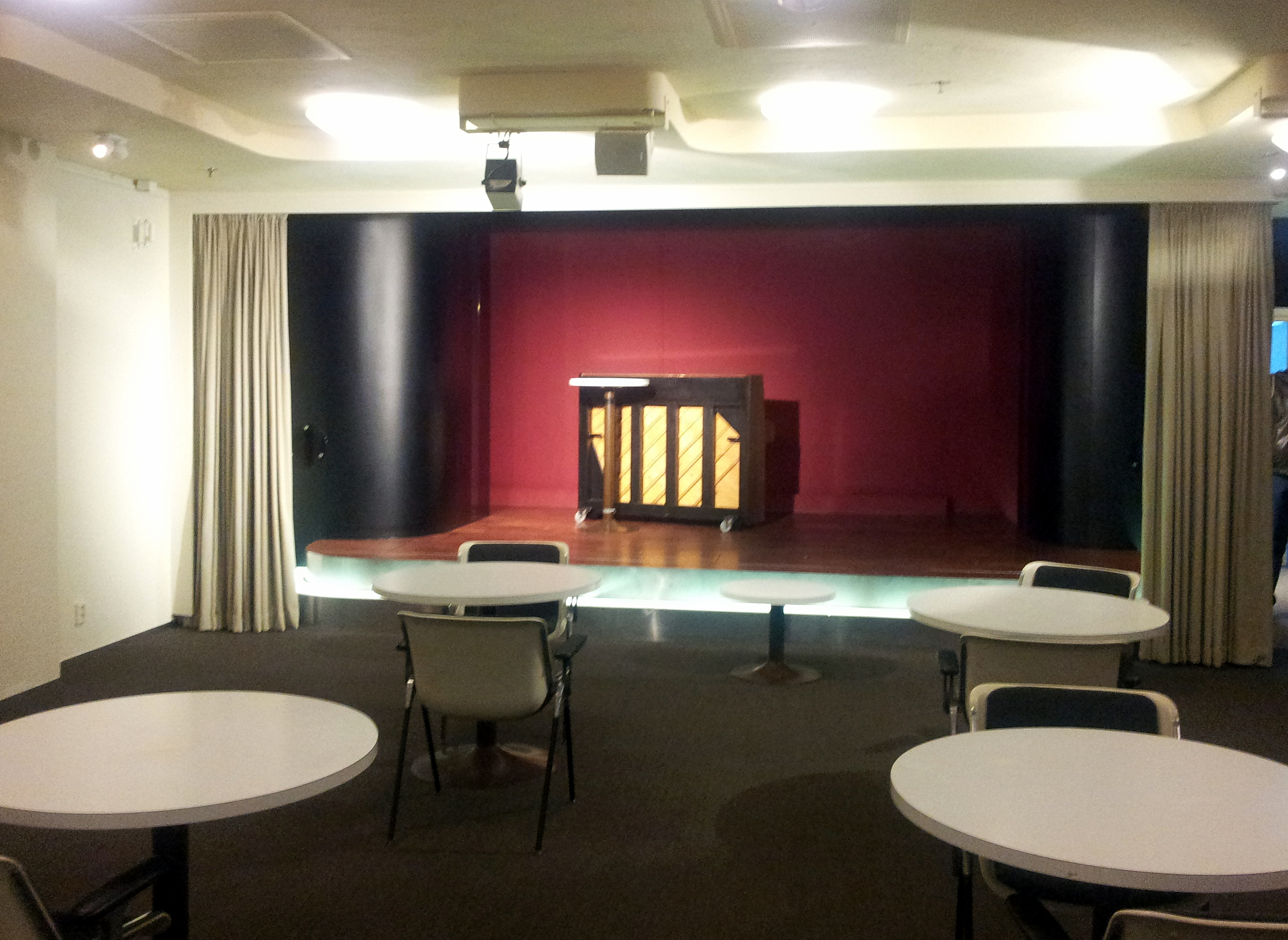 Mirliton Theater, frontal sight onto stage